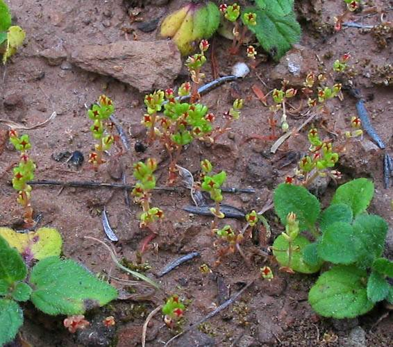 Crassula connata at Circle X Ranch: Mishe Mokwa trail, Santa Monica Mountains National Recreation Area, California, USA.